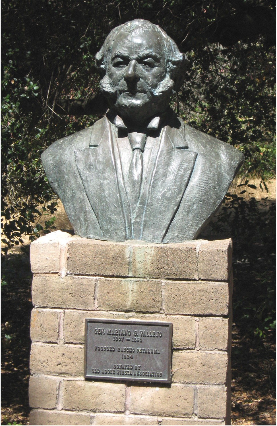 A bust of General Mariano Guadalupe Vallejo (1807–1890) located at the Petaluma Adobe State Historic Park outside of Petaluma, California